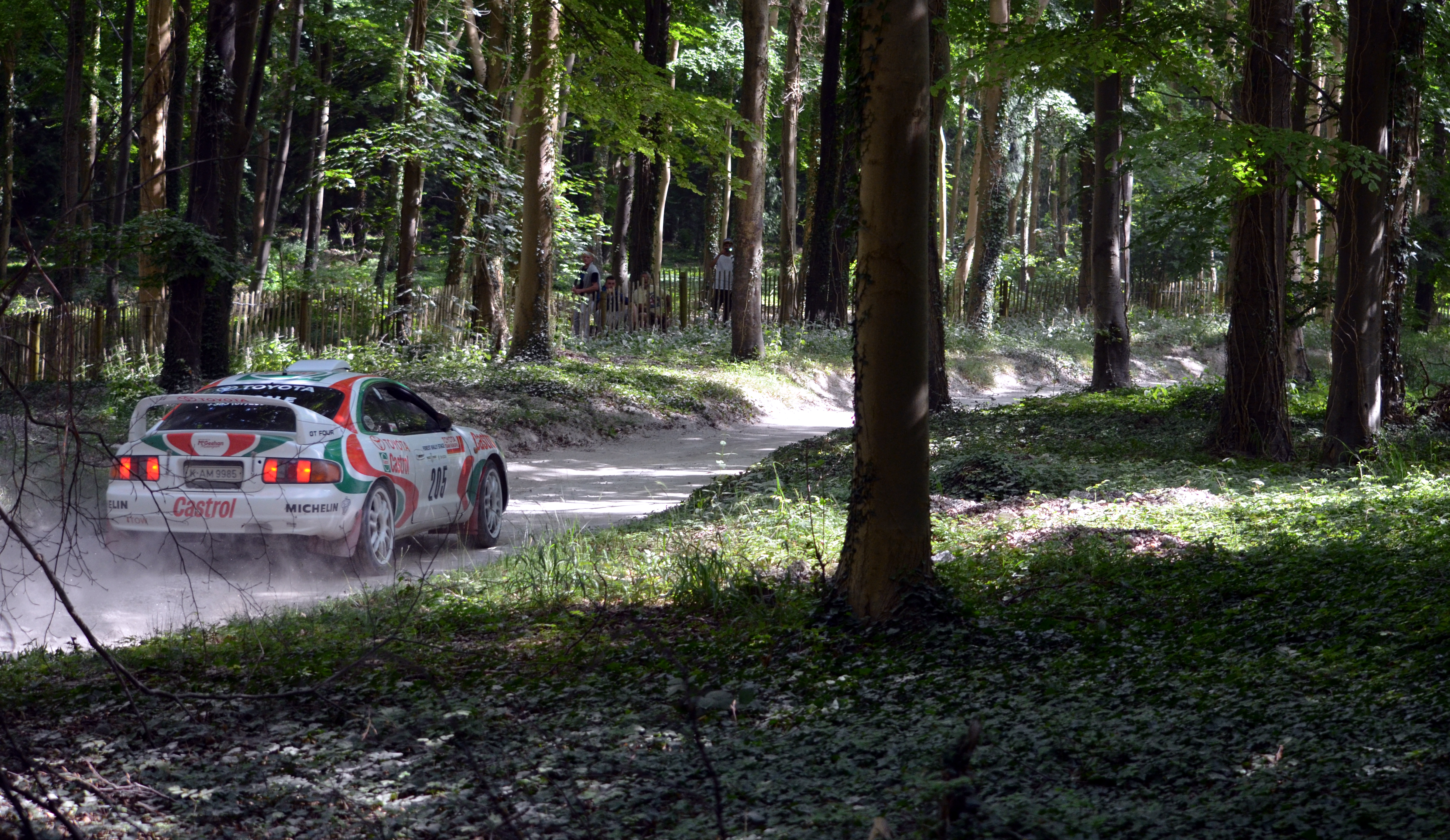 The Toyota Celica GT-Four ST205 of Toyota Team Europe at the 2014 Goodwood Festival of Speed.